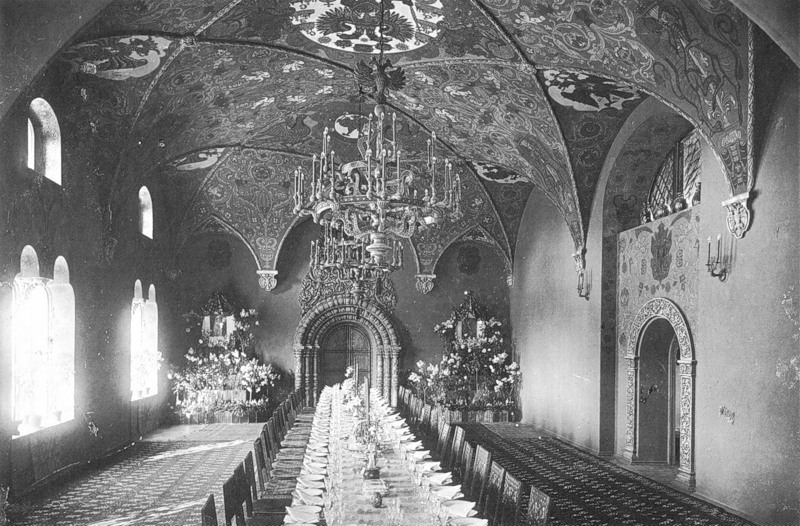 Tsarskoye Selo (Russia), Refectory of Fedorovsky town. Interior.